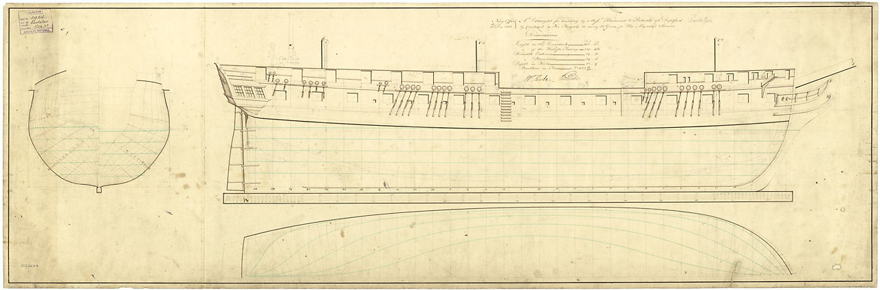 PACTOLUS 1813 lines